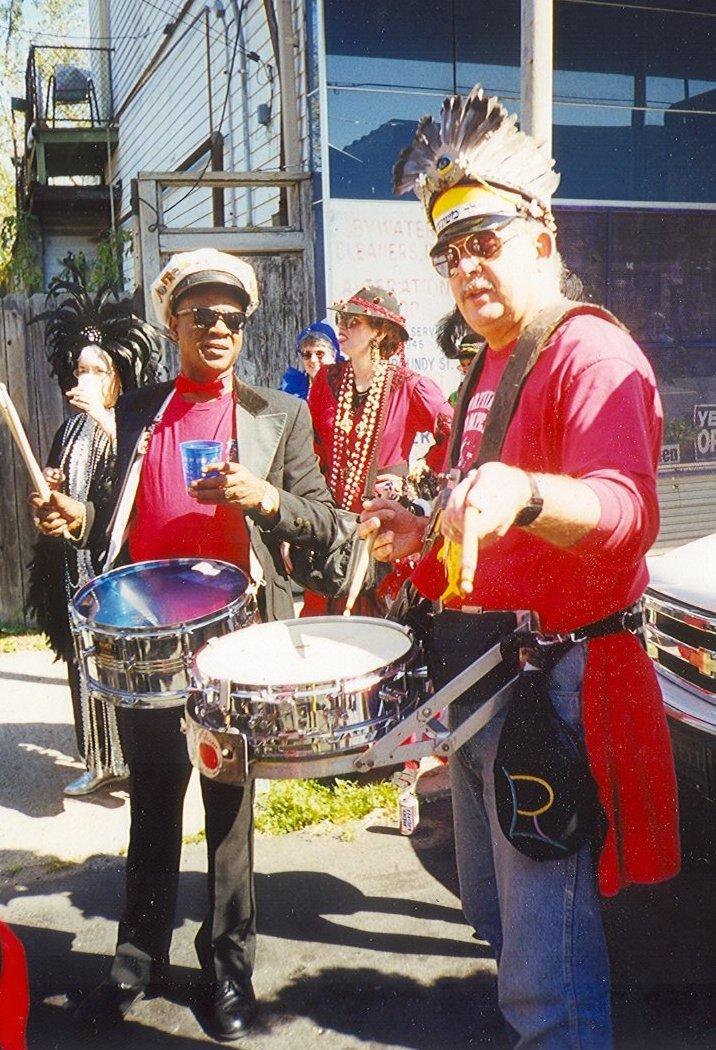 Drummers, New Orleans Mardi Gras 1998 Drummers with the Storyville Stompers Brass Band, taken in Bywater neighborhood, Mardi Gras morning. Photo by Infrogmation of New Orleans